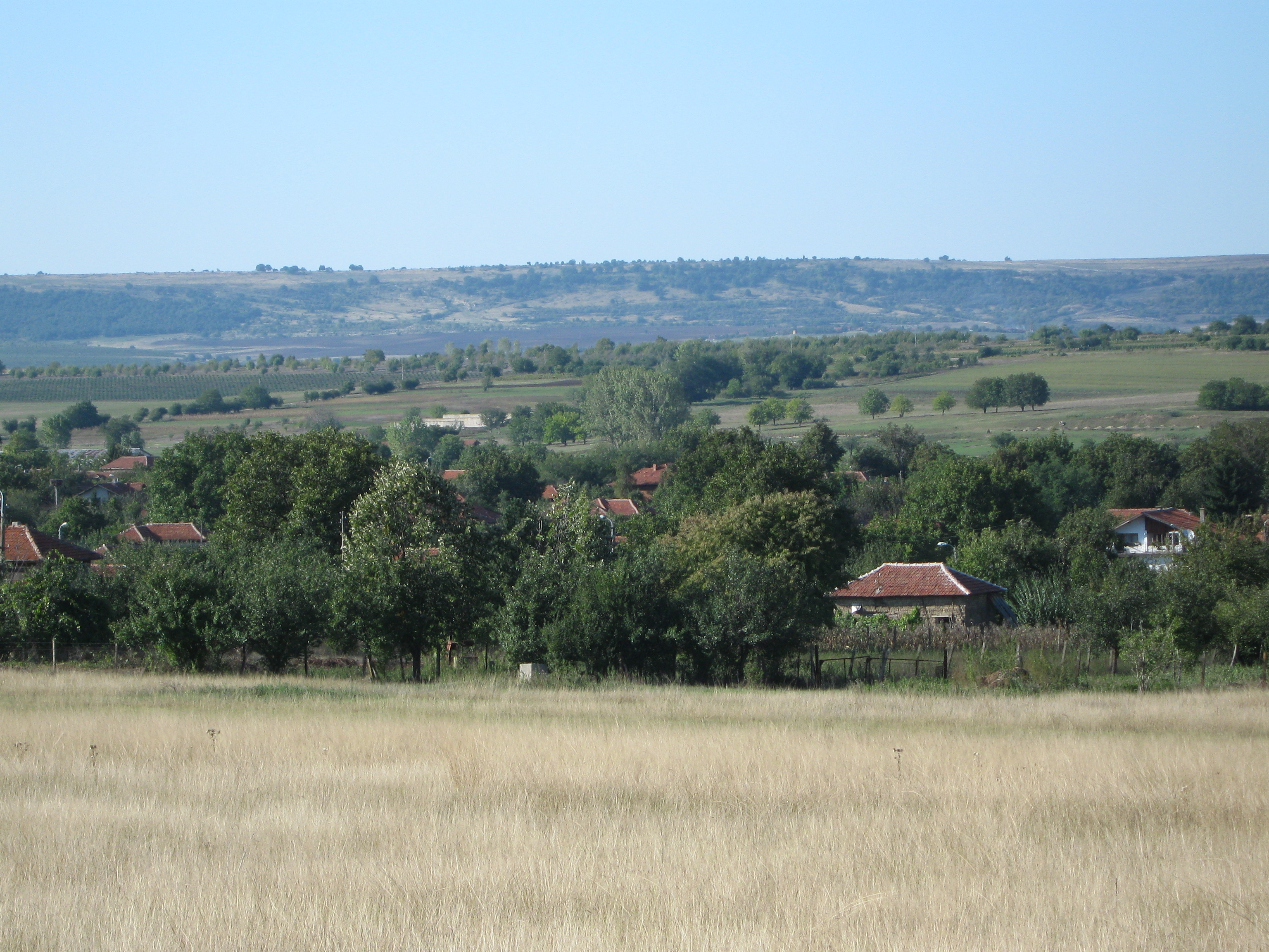 no